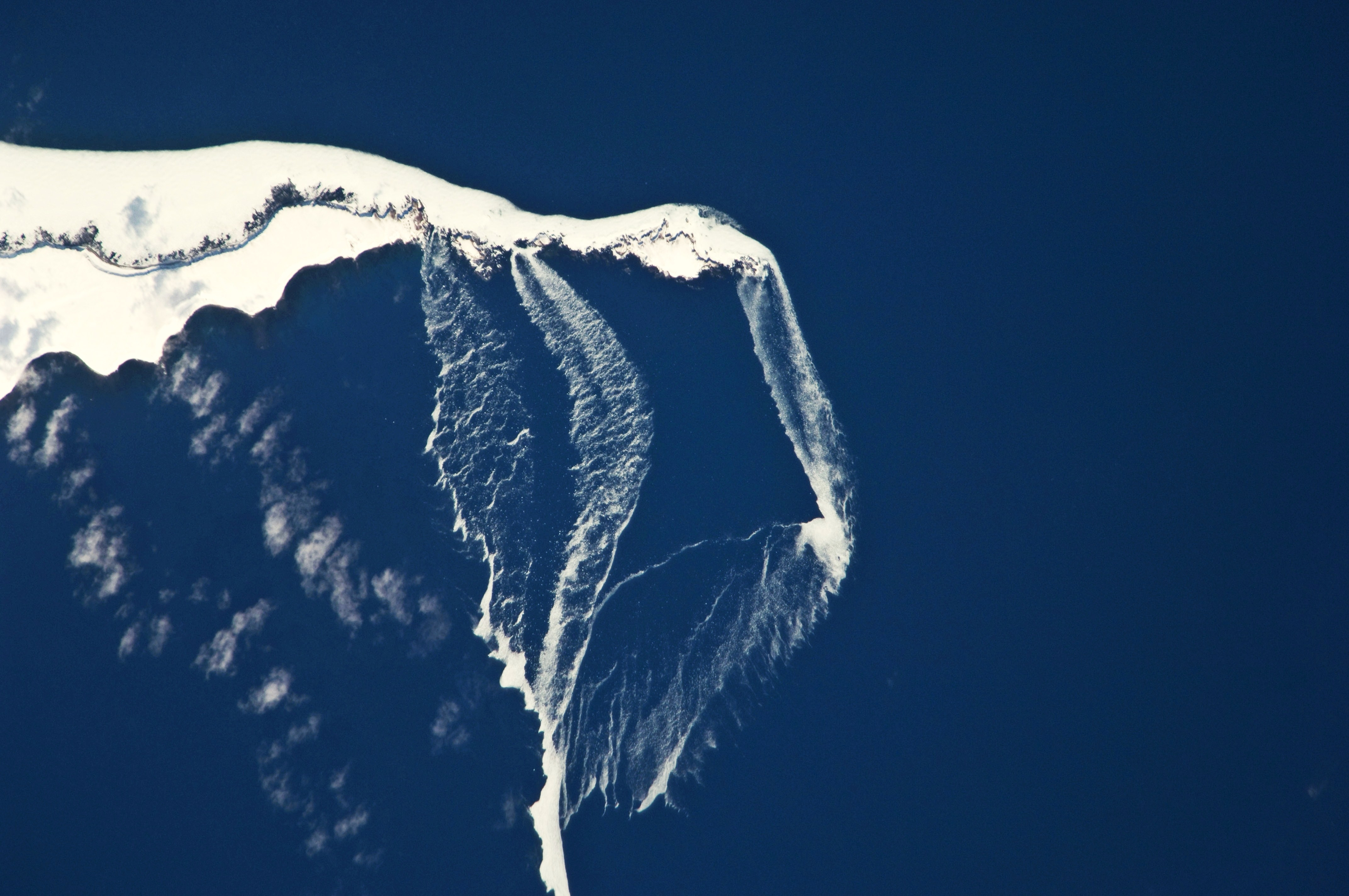 The north-eastern tip of the island and three small islands to the north-east are recognizable by their uniform cover of white snow and shadowing along the north-western coastlines. Sea ice that formed to the north in the Sea of Okhotsk has been piled up against the islands by prevailing north-westerly winds, forming an irregular mass connecting the islands (image centre). The orientation of patchy low clouds over Urup Island (image lower left) also suggests that north-westerly winds are present. Smaller ice floes are breaking off from the main ice mass at gaps between the islands and forming finger-like projections of ice fragments that extend to the south-east (image lower right). Surface winds may be channelled through these gaps and accelerated, hastening the breakup and movement of ice.